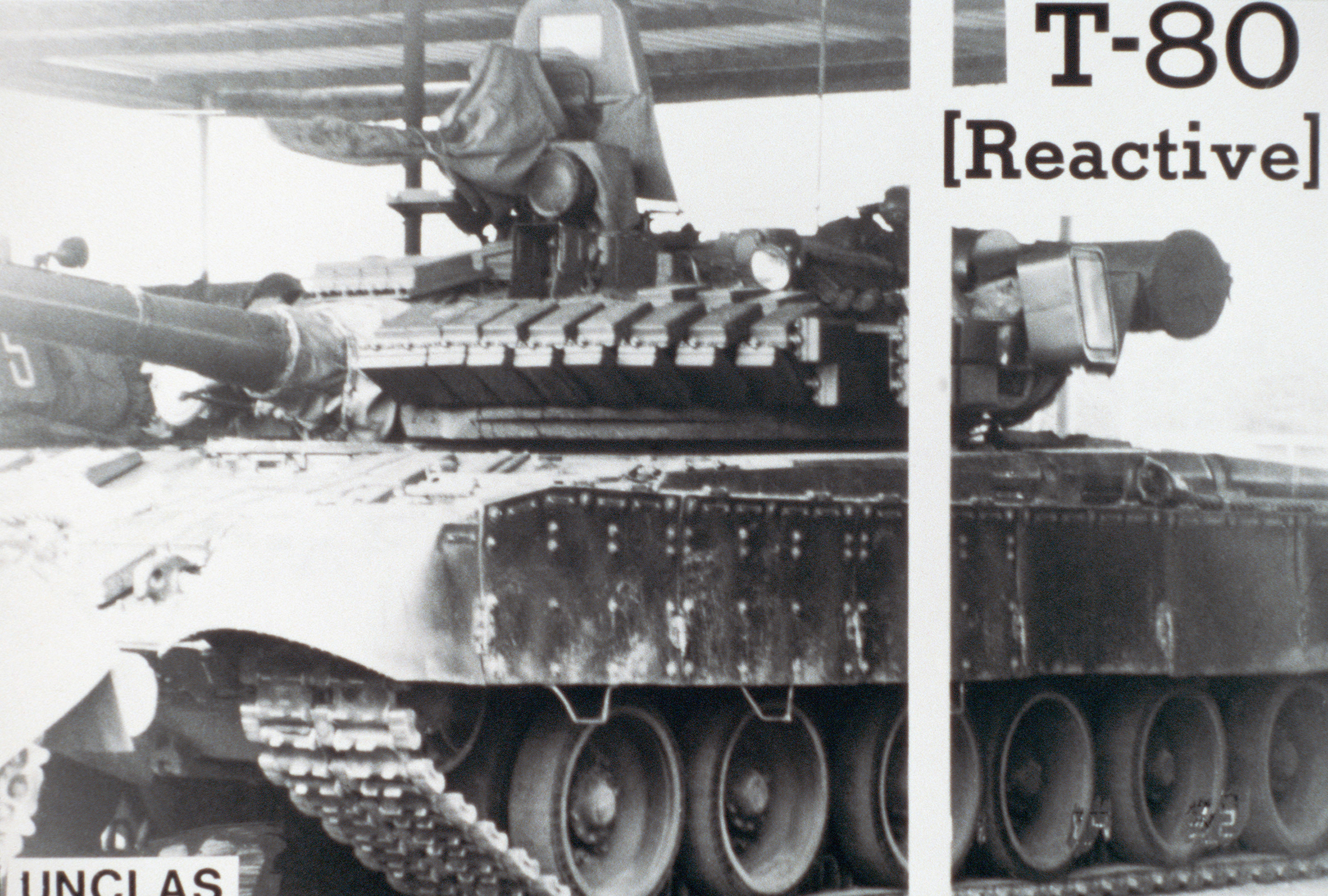 A left front view of a Soviet T-80 main battle tank showing its reactive armor on the turret. Behind the canvas-shrouded 12.7 mm machine gun is a gunner's shield.